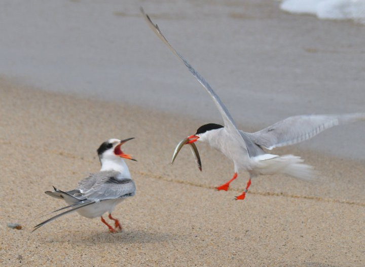 An adult Common Tern feeding a juvenile at Nantucket National Wildlife Refuge, Massachusetts, USA. The adult is taking a fish (probably a sand eel) to the chick.